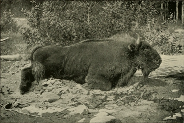 An image of a killed Caucasian Bison from E. Demidoff's book 'Hunting Trips in The Caucasus' (1889).